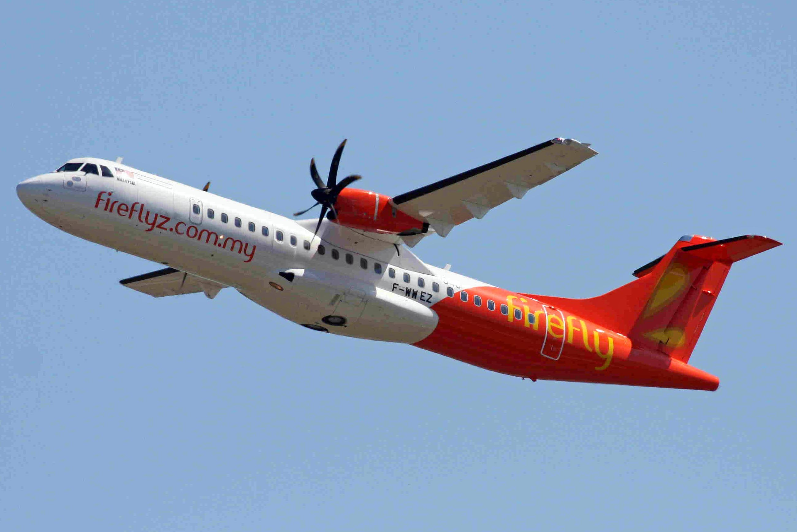 F-WWEZ (948) ATR.72-212A(500) FlyFireFly TLS 30AUG1